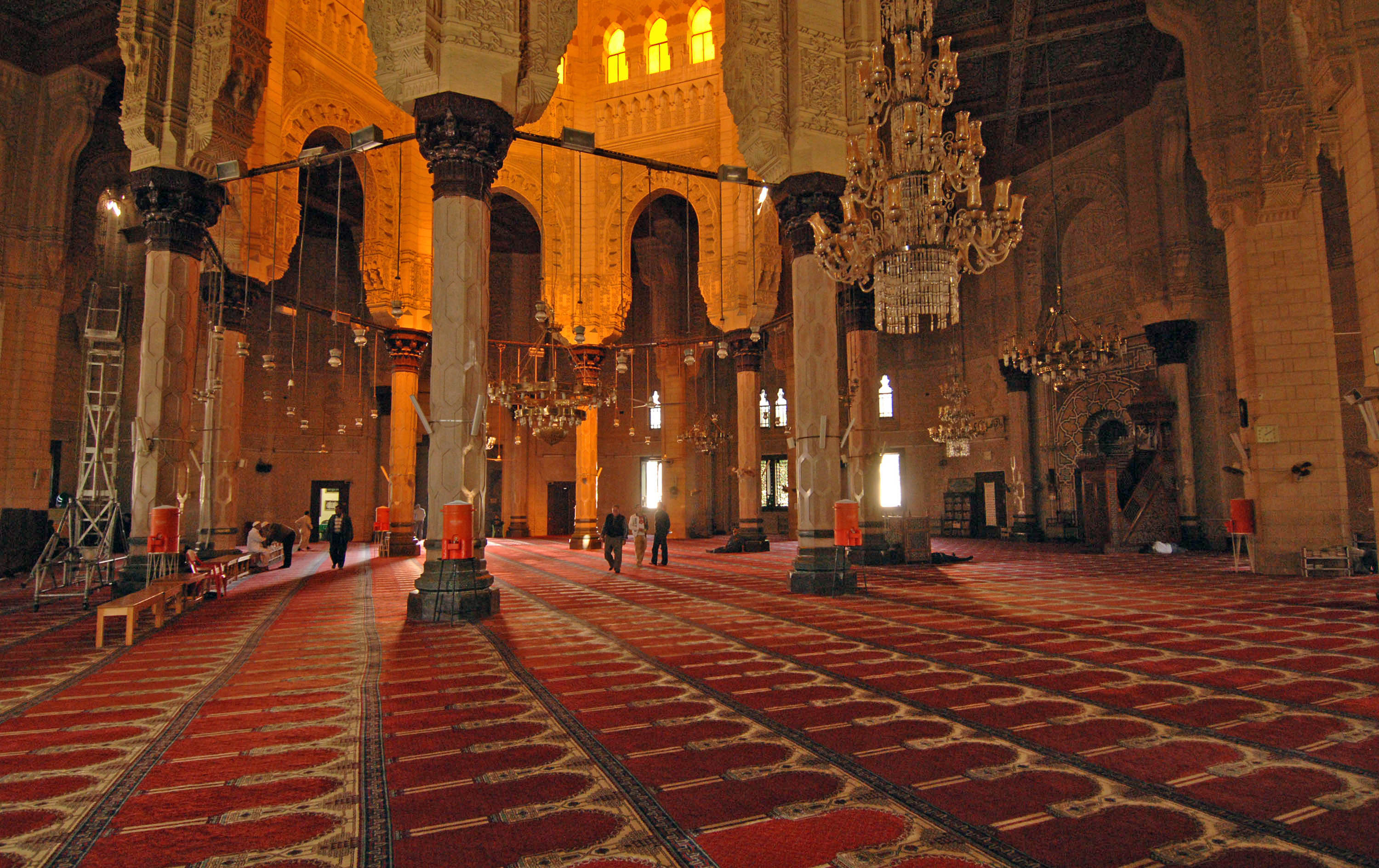 MURSI BUILT IN 1943 ON THE SITE OF AN EARLIER MOSQUE BUILT OVER THE TOMB OF A MUSLIM SAINT FROM SPAIN.